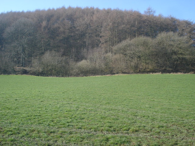 Burfa Camp hillfort Looking westwards to Burfa Wood from near the farm track at Knill. The Welsh border runs along the edge of the wood at the bottom of the hill. On top of the hill is Burfa Camp, a large hillfort of around 20 acres, protected by multiple stone-revetted ramparts with medial ditches. All of which today is covered by dense woodland.